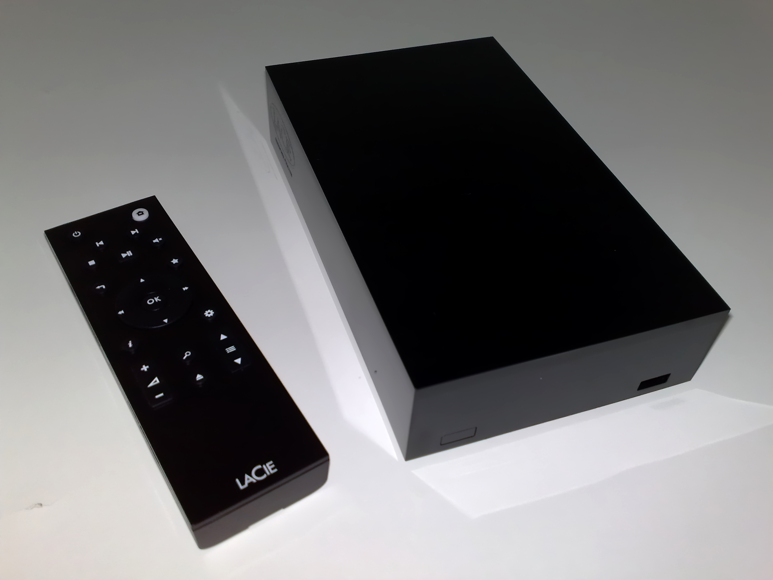 LaCie LaCinema PlayHD HDD media player. Specifications and documents can be found at here